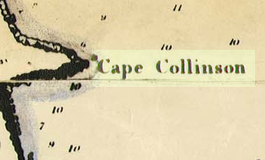 A highlight on Cape Collinson. The Ordnace Map of Hong Kong 1845 was created by Thomas Bernard Collision.